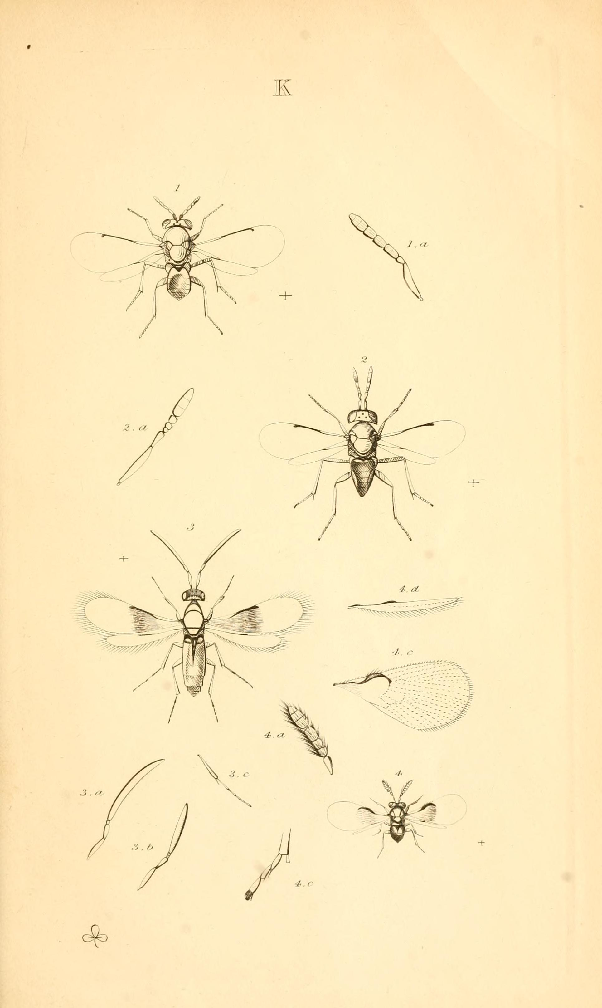 1. Coecophagus scutellaris fem Monographia Chalciditum 1:6 a Antenna 2 Aphelinus basalis mas Monographia Chalciditum 1: 2 a Antenna 3 Thusanus ater mas Ann. Nat Hist 4: 234 a Antenna b ditto of female c Middle tibia and tarsus 4 Trichogramma evanescens mas Monographia Chalciditum !:13 a Antenna b Tarsus c Forewing D Hindwing Taxonomy Coecophagus scutellaris Synonym of ( Misspelling of) Coccophagus scutellaris (Dalman, 1826) (Aphelinidae : Coccophaginae ) Aphelinus basalis (Westwood, 1833) Synonym of Aphelinus abdominalis (Dalman, 1820) Valid name Thusanus ater Synonym of (Misspelling of) Thysanus ater Walker, 1840 ([Signiphoridae ) Trichogramma evanescens Westwood, 1833 ([Trichogrammatidae : Trichogrammatinae : Trichogrammatini )